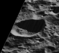 Oblique view of Tsu Chung-Chi crater, on the far side of the moon, facing west